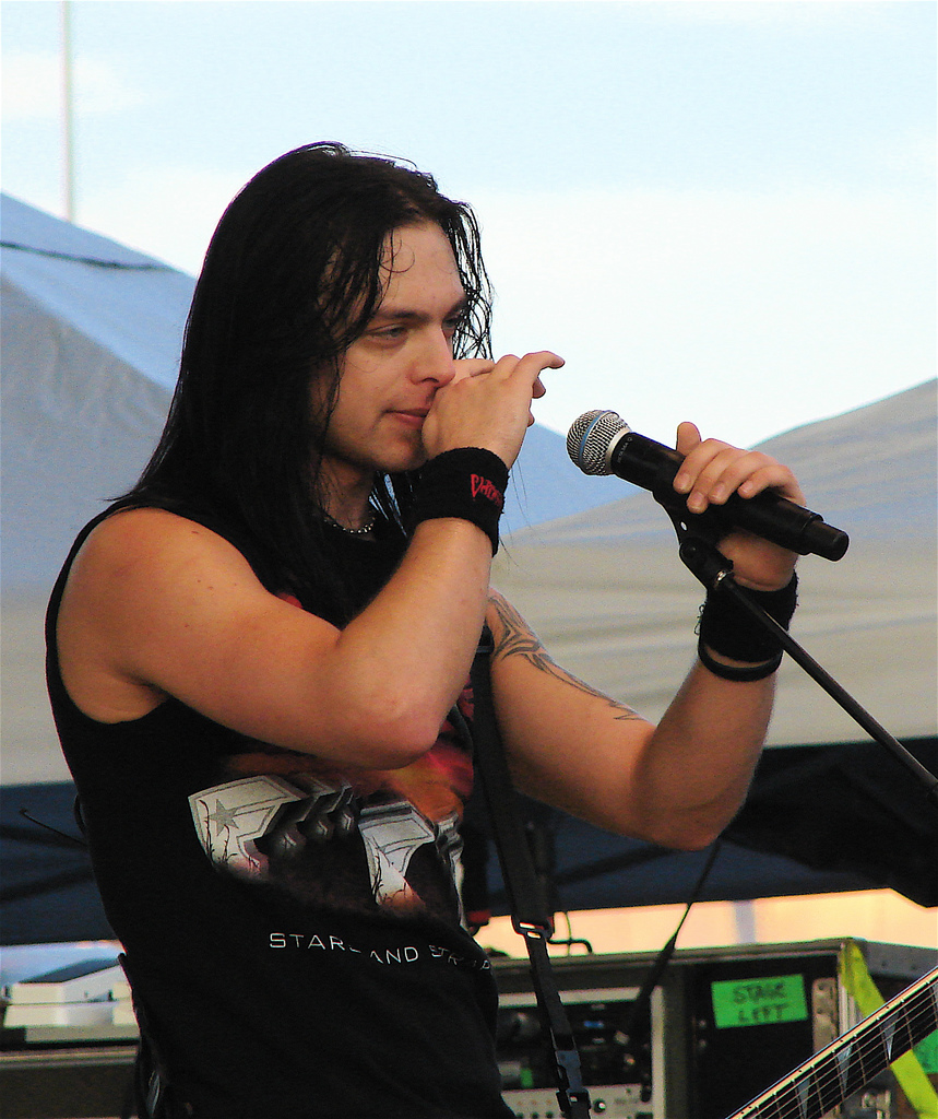 live in Little Rock, AR 3-30-08. I love the vulnerability this reveals in contrast with the heavy rock image.